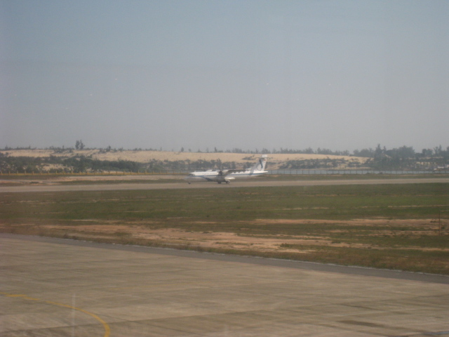 Dong Hoi Airport, Vietnam